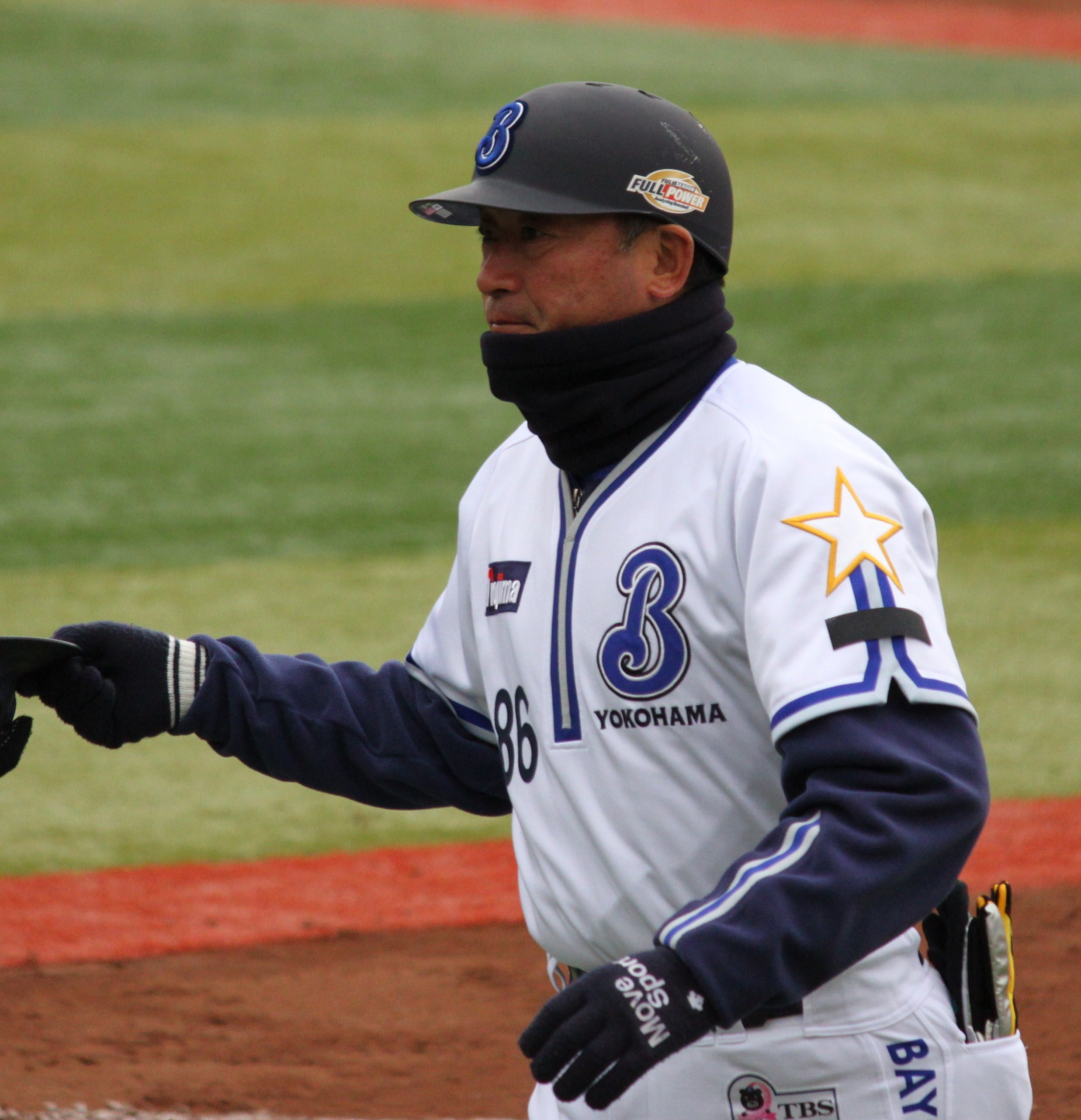 Osamu Yonemura, coach of the Yokohama BayStars, at Yokohama Stadium